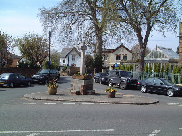 War Memorial, Laleham. Chertsey, Surrey, Great Britain